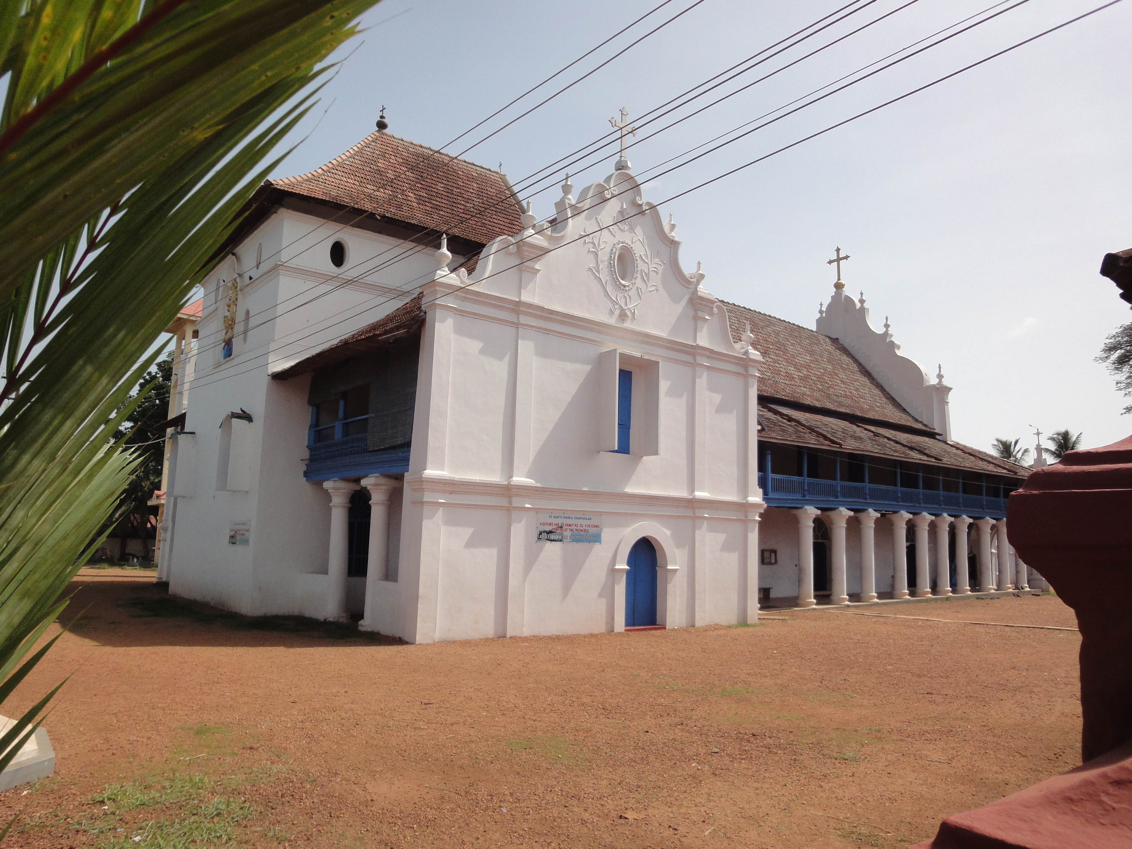 Champakulam St. Mary's Church (Kalloorkkadu Palli) / Valia Palli. This is the view from the North East side.